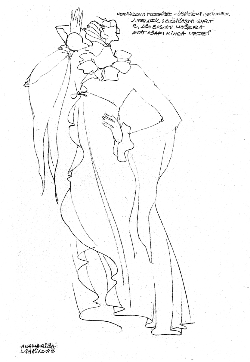 Anamarija Mihajlović, Pink Death (sketches and costumes), L. Feldek, Novi Sad Theatre, Novi Sad, 2002 Srpski (latinica): Anamarija Mihajlović, Ružičasta smrt (skica kostima) L. Feldek, Novosadsko pozorište – Újvidéki Színház, Нови Сад, 2002. Српски (ћирилица): Анамарија Михајловић, Ружичаста смрт (скица костима), Л. Фелдек, Новосадско позориште – Újvidéki Színház, Нови Сад, 2002.